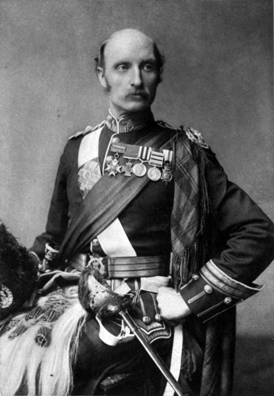 Sir George Steward White, frontispiece to "The Project Gutenberg EBook Four Months Besieged by H. H. S. Pearse"